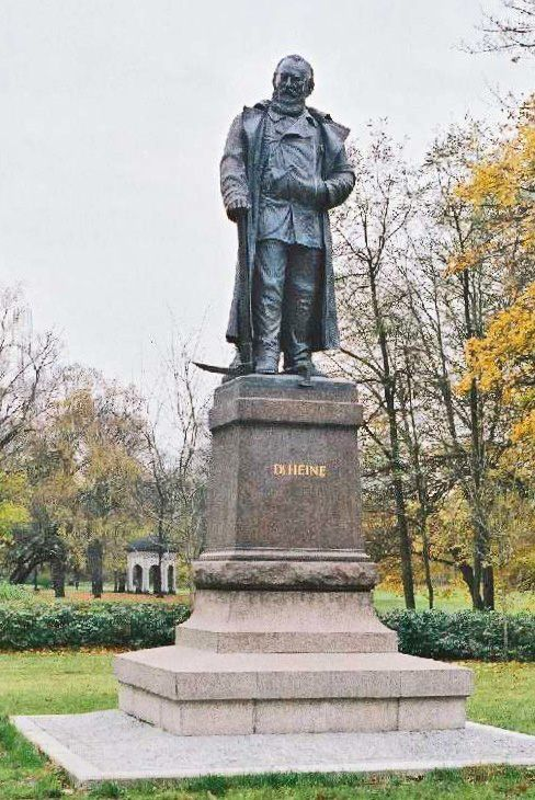 Memorial for the Leipzig lawyer, businessman and industrial pioneer Dr. Carl Heine. It was created in 1897 by Karl Seffner, melted down in World War II and recast in 2001.